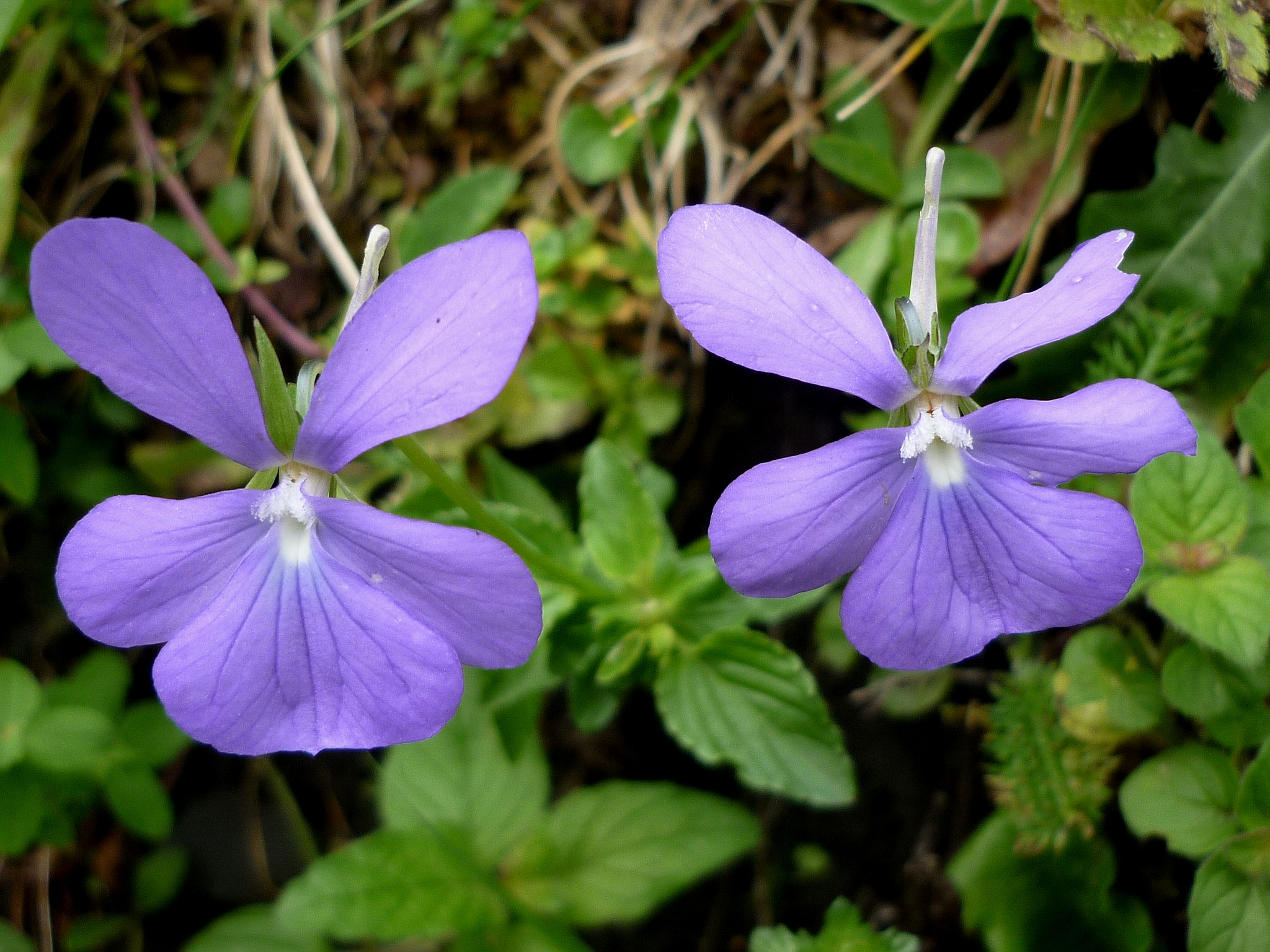 Viola cornuta. In Vielha e Mijaran (Val d'Aran - Catalunya. To 1.475 m altitude